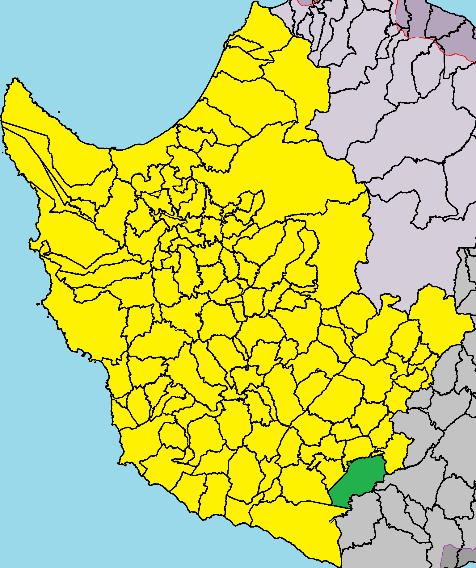 Pano Archimandrita in Paphos District.